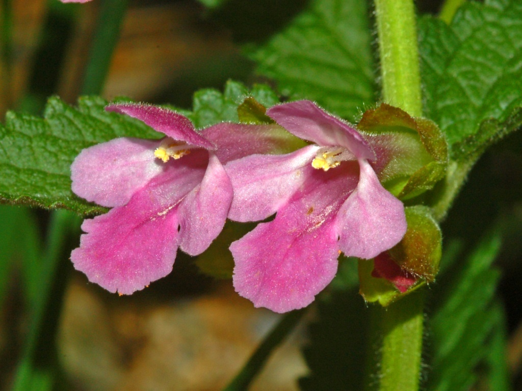 Melittis melissophyllum - Piani di Praglia, Genova, Italy